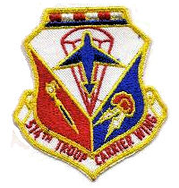 Emblem of the 514th Troop Carrier Wing, Mitchel AFB